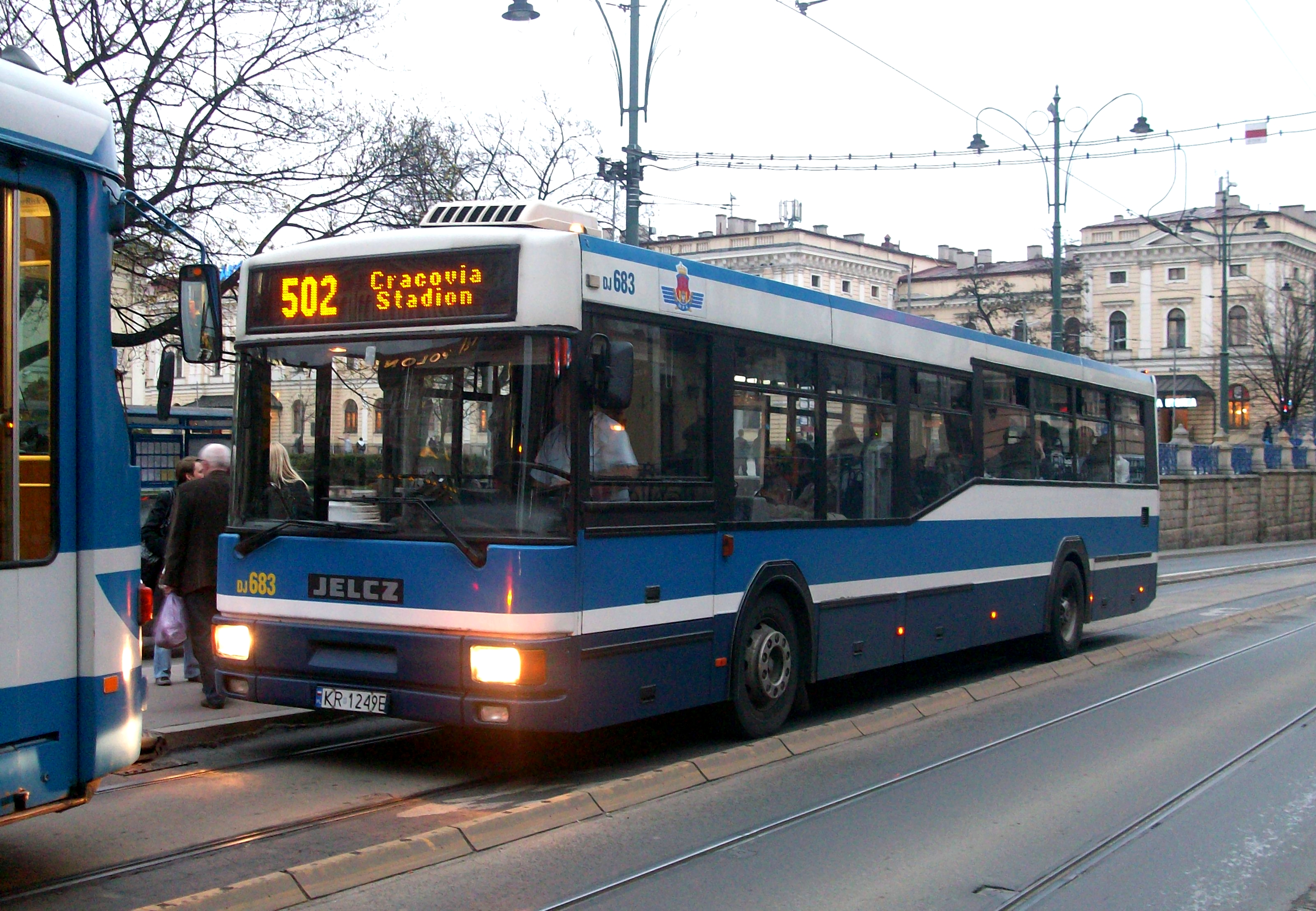 Jelcz M121MB bus (#DJ683, reg. KR 1249E) in Kraków, Poland. Built 2002, MPK Kraków operator.